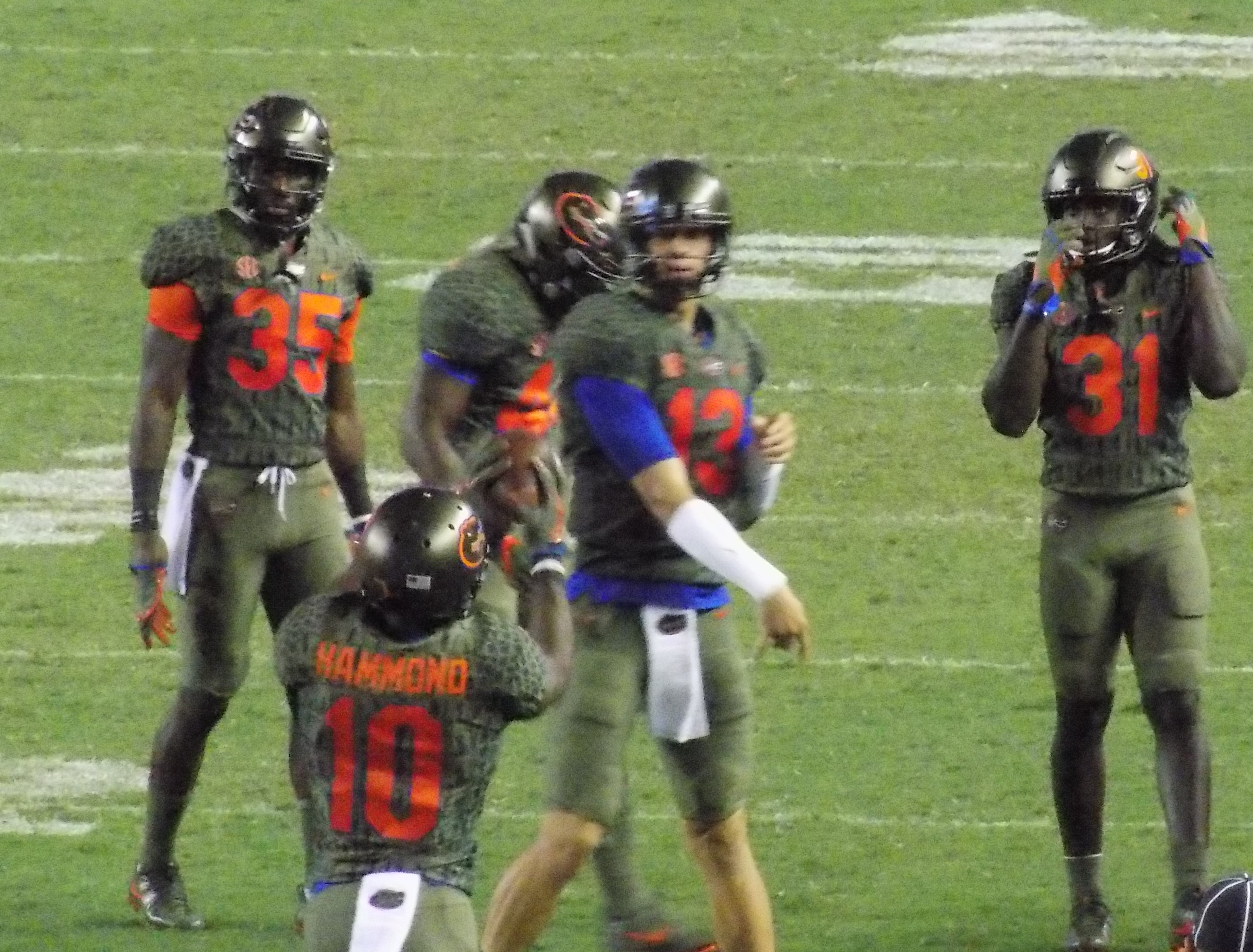 The Florida Gators football "swamp green" uniforms worn October 14, 2017